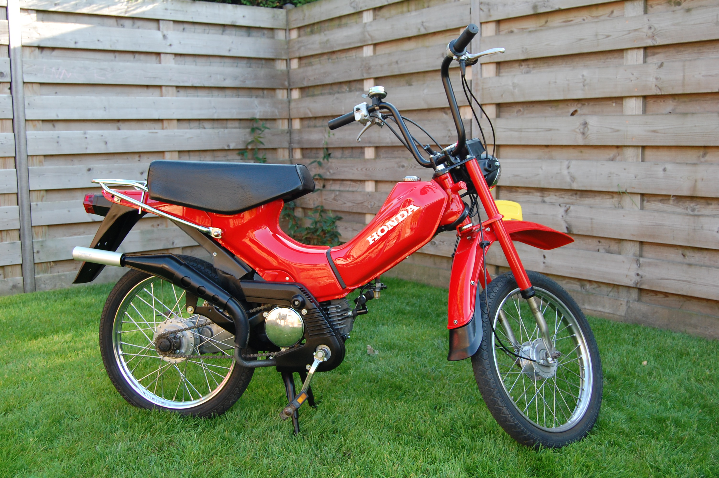 Honda PX uit 1980